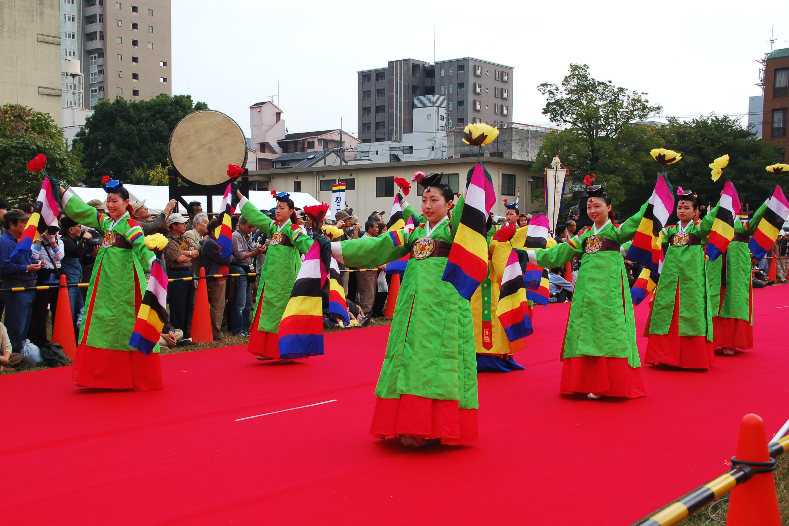 Muhee (dancer) are dancing probably “Gain jeon mokdan” (가인전목단)[1], one of the royal court dances under the Joseon Dynasty.